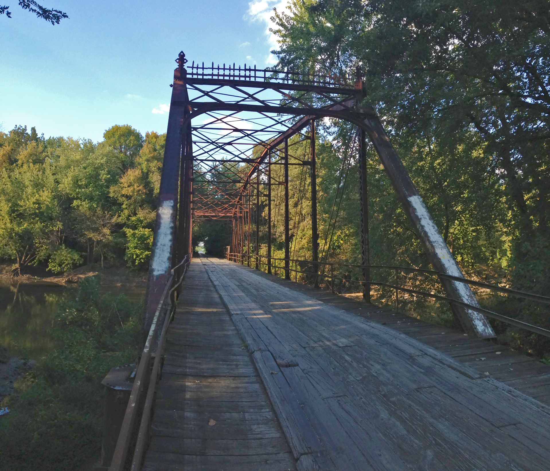 Bolivia Road Bridge, Across the North Fork of the Sangamon River Bolivia